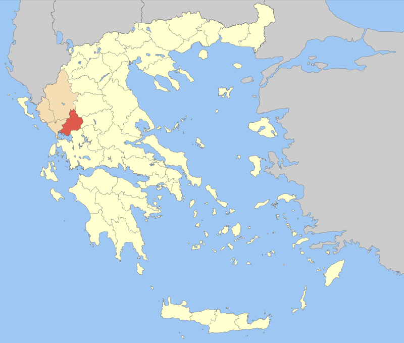 Locator map of Arta prefecture (Νομός Άρτας) in Greece